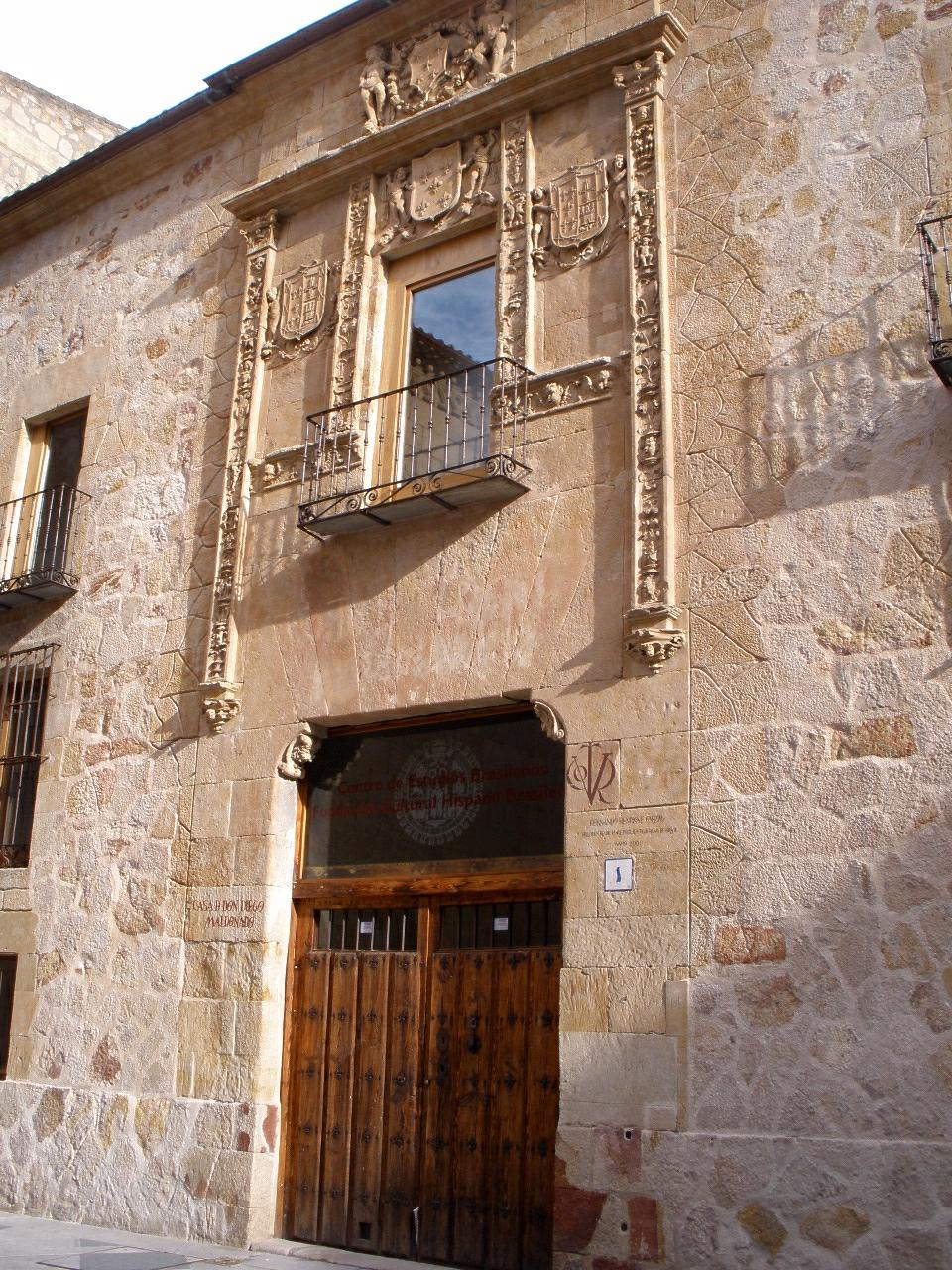 Casa de Don Diego Maldonado, en Salamanca (España)